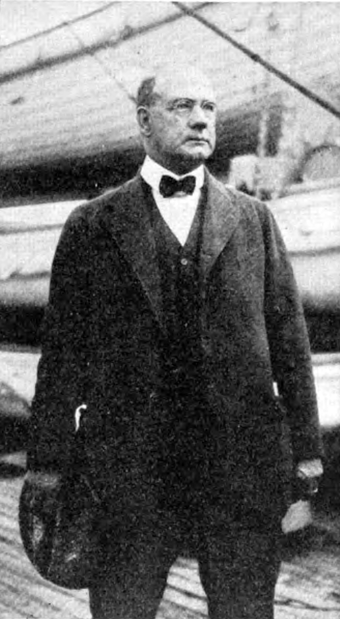 Ernest A. Yarrow (21 February 1876 - 26 October 1939) was a Christian missionary and a witness to the Armenian Genocide. He was also known for the relief effort of saving and caring for tens and thousands of Armenian refugees as part of the Near East Foundation. Yarrow had publicly declared that "the Turks and Kurds have declared a holy war on the Armenians and have vowed to exterminate them." He also added that the massacres were an "organized, systematic attempt to wipe out the Armenians."